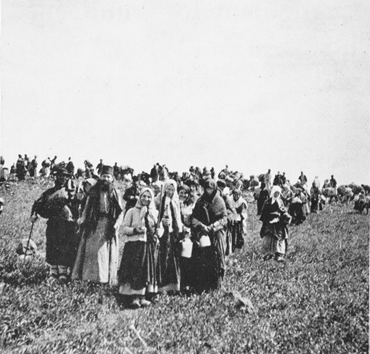 Russian pilgrims approaching Nazareth. circa 1904